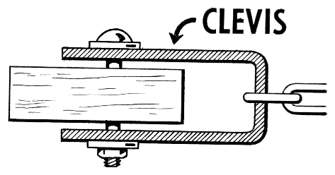 Line-art drawing of a clevis